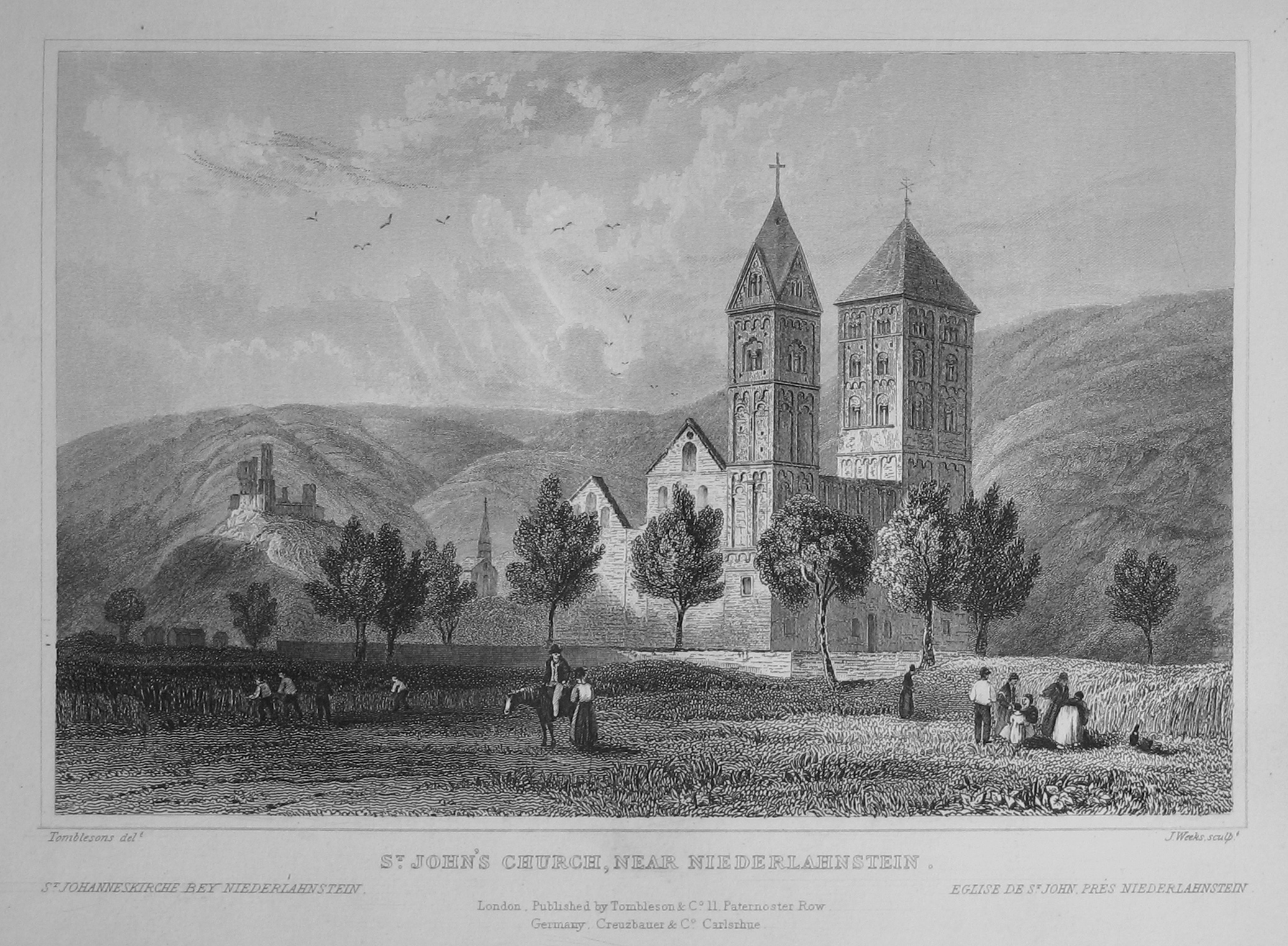 Steel engraving from "Views of the Rhine" by William Tombleson (around 1840): St John's Church, near Niederlahnsten